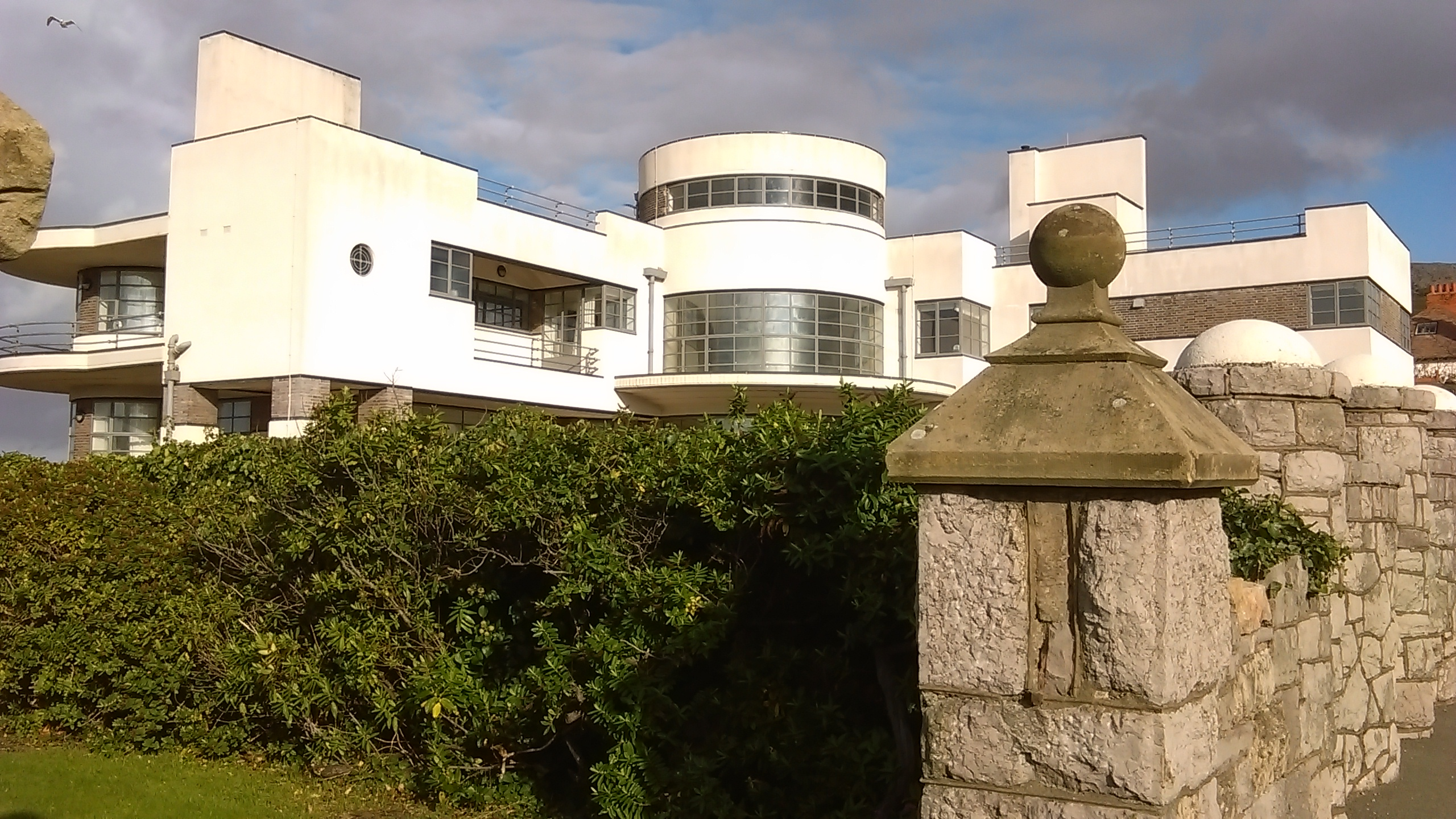 Image of the Villa Marina in Llandudno